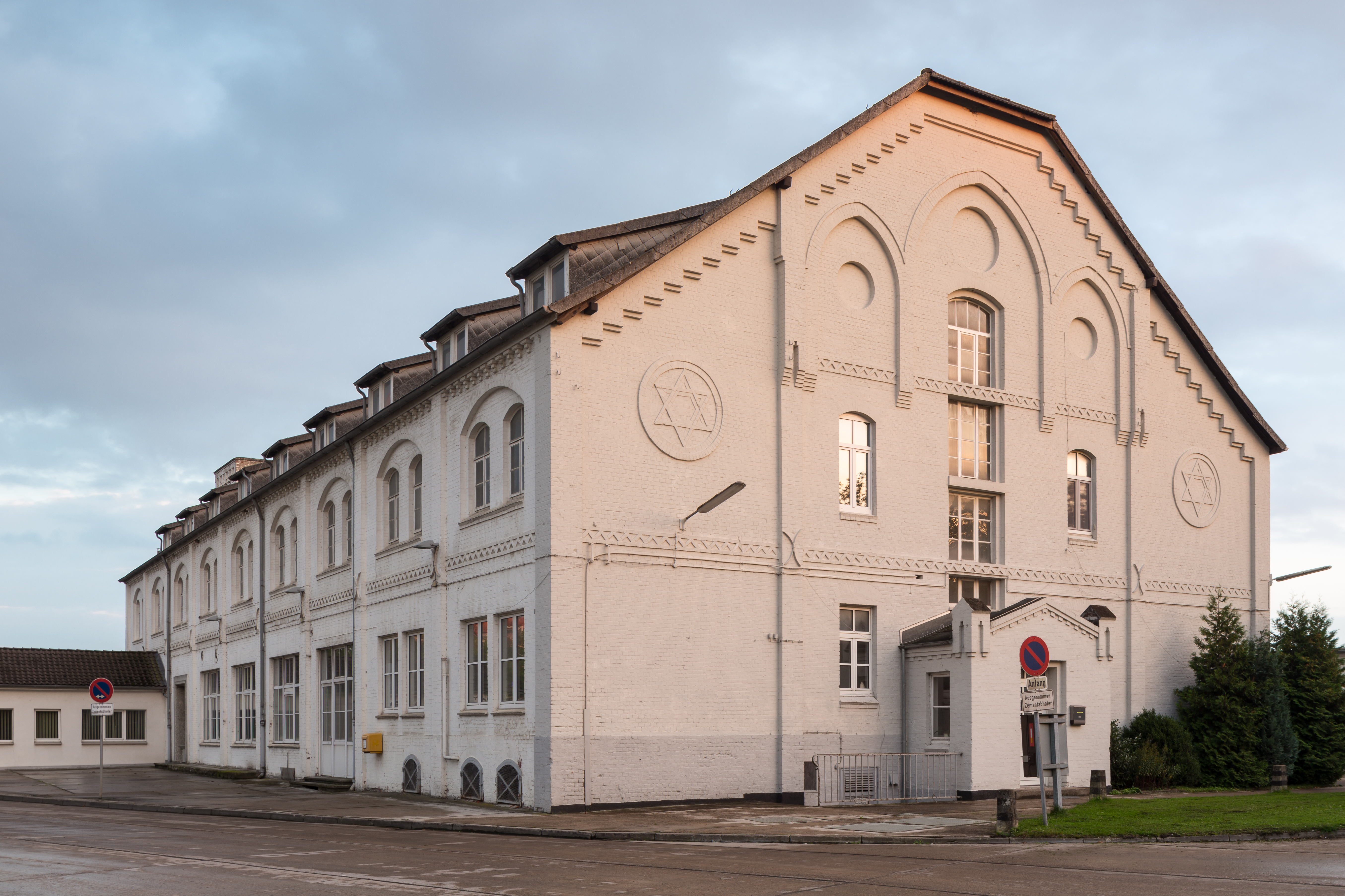 Factory building located at Lohweg no. 32 in Misburg-Sued quarter of Hannover, Germany.